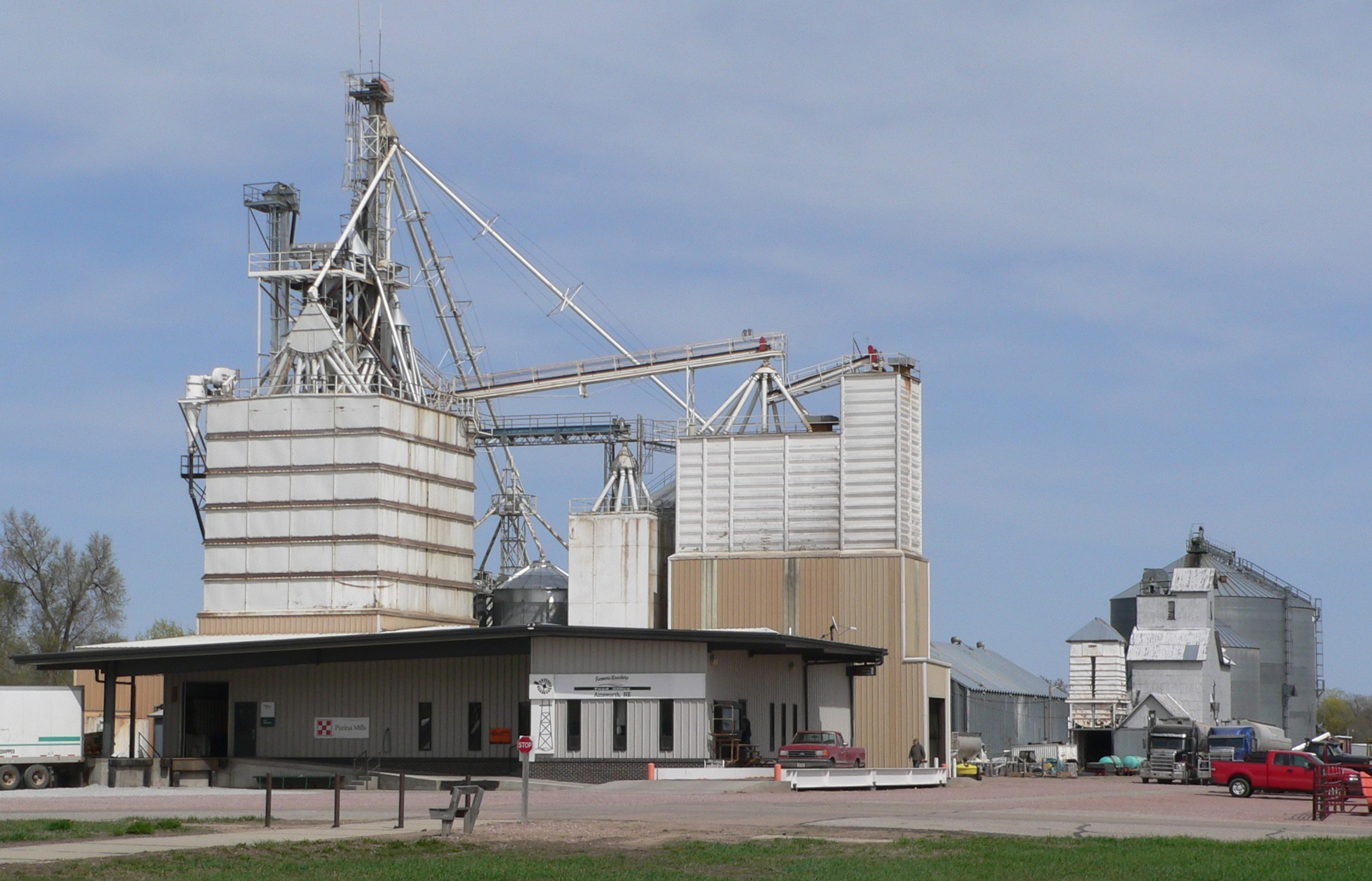 Farmers Ranchers Cooperative feed mill in Ainsworth, Nebraska.